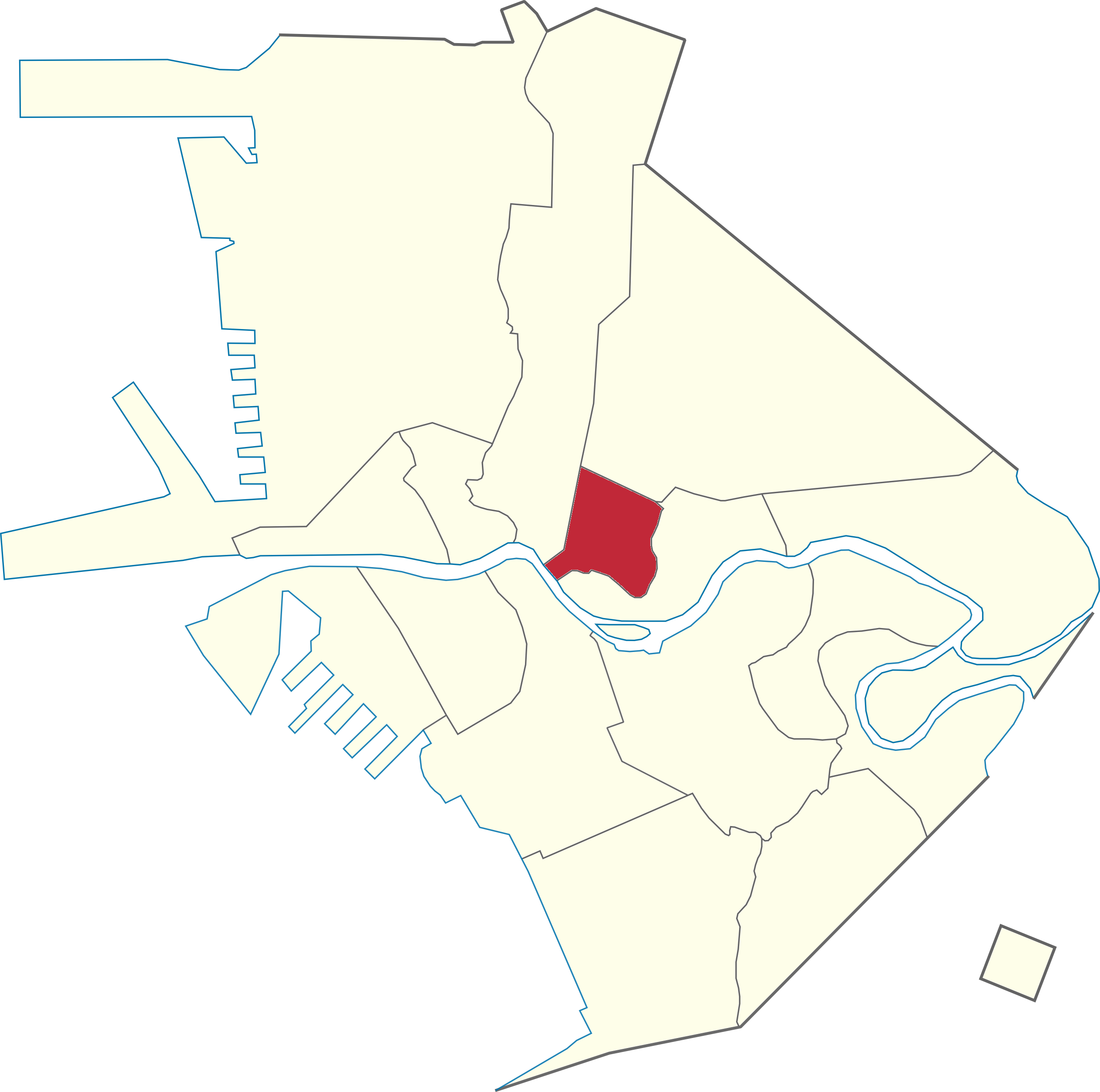 Location of Quiapo in Manila